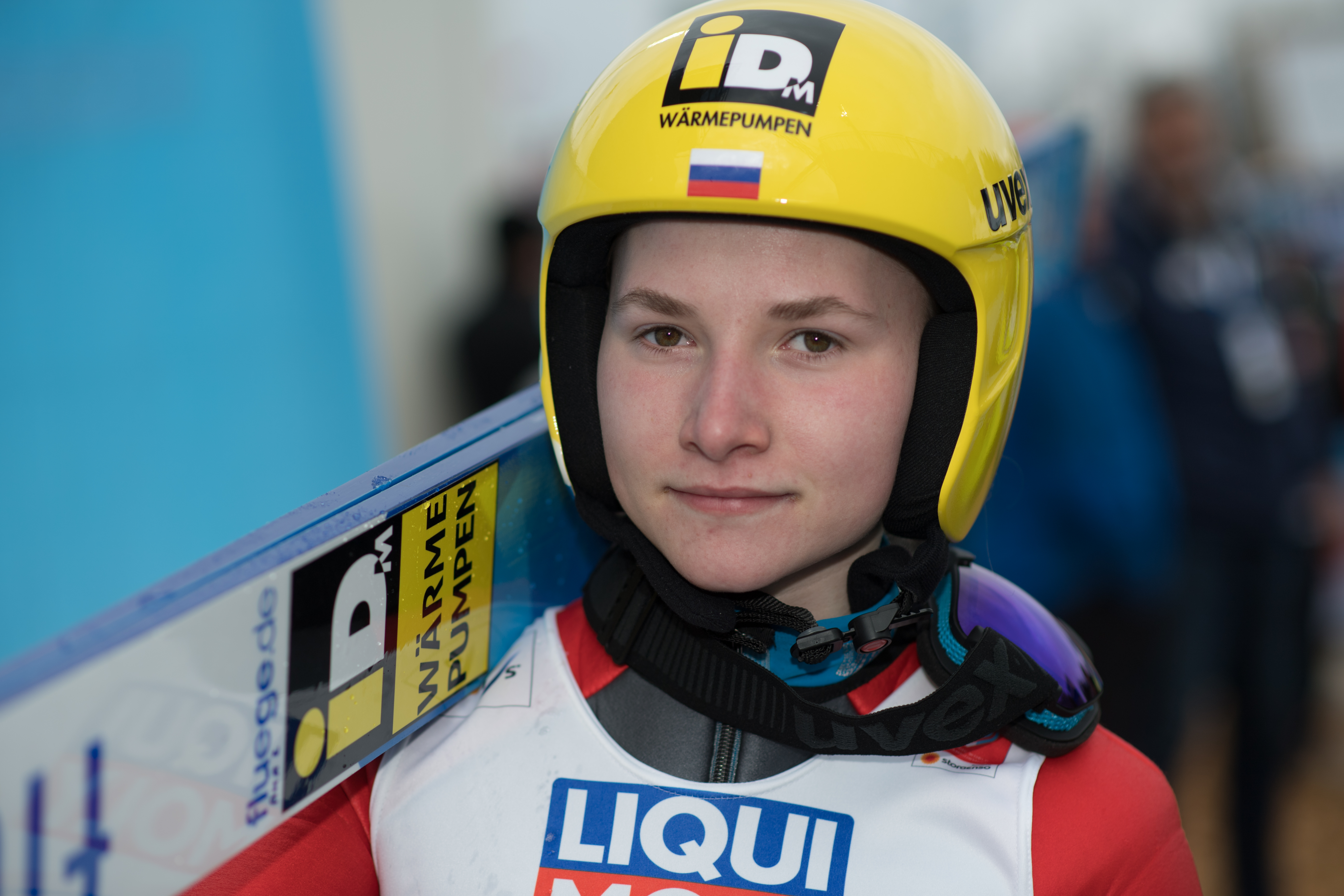 Seefeld, March 2, 2019: FIS Nordic World Ski Championships, Ski Jumping Mixed Team.